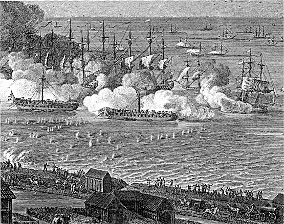 Copper plate engraving of Slaget På Reden with the southern part of Prøvestenen at Copenhagen, Denmark based on an oil painting by C. A. Lorentzen. Danish description from source: "Den bedste og mest instruktive gengivelse afslaget på Reden er J. F. demens' kobberstik efter det maleri, som C. A. Lorentzen udførte til kronprins Frederik i efteråret 1801. Udsnittet viser Prøvestenen sydligst i Kongedybslinien, efter henved to timers kamp med linieskibene Polyphemus og Russell og fregatten Desirée. "